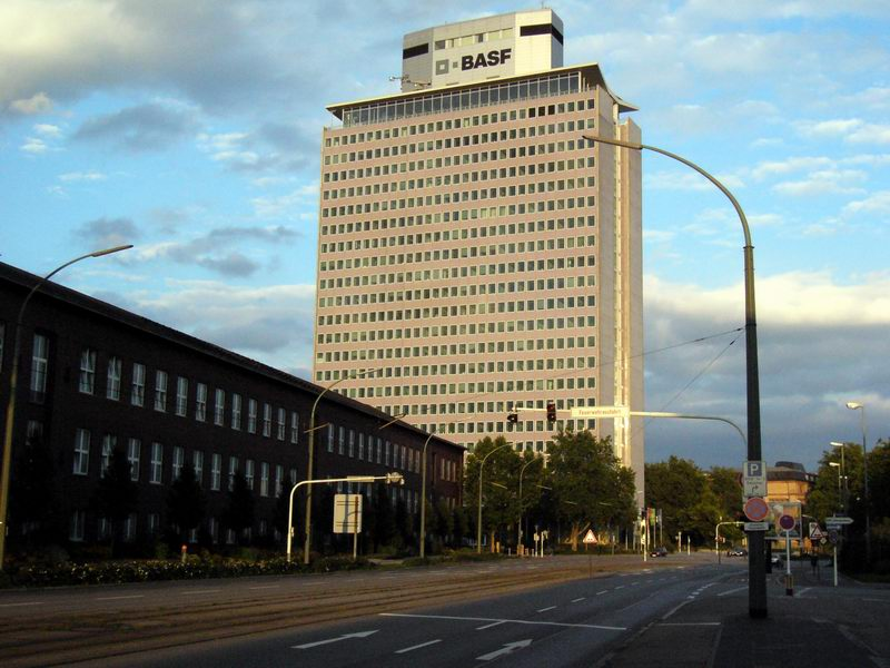 The BASF-Hochhaus in Ludwigshafen, Germany. The main adminstrative building of the BASF was built 1957.